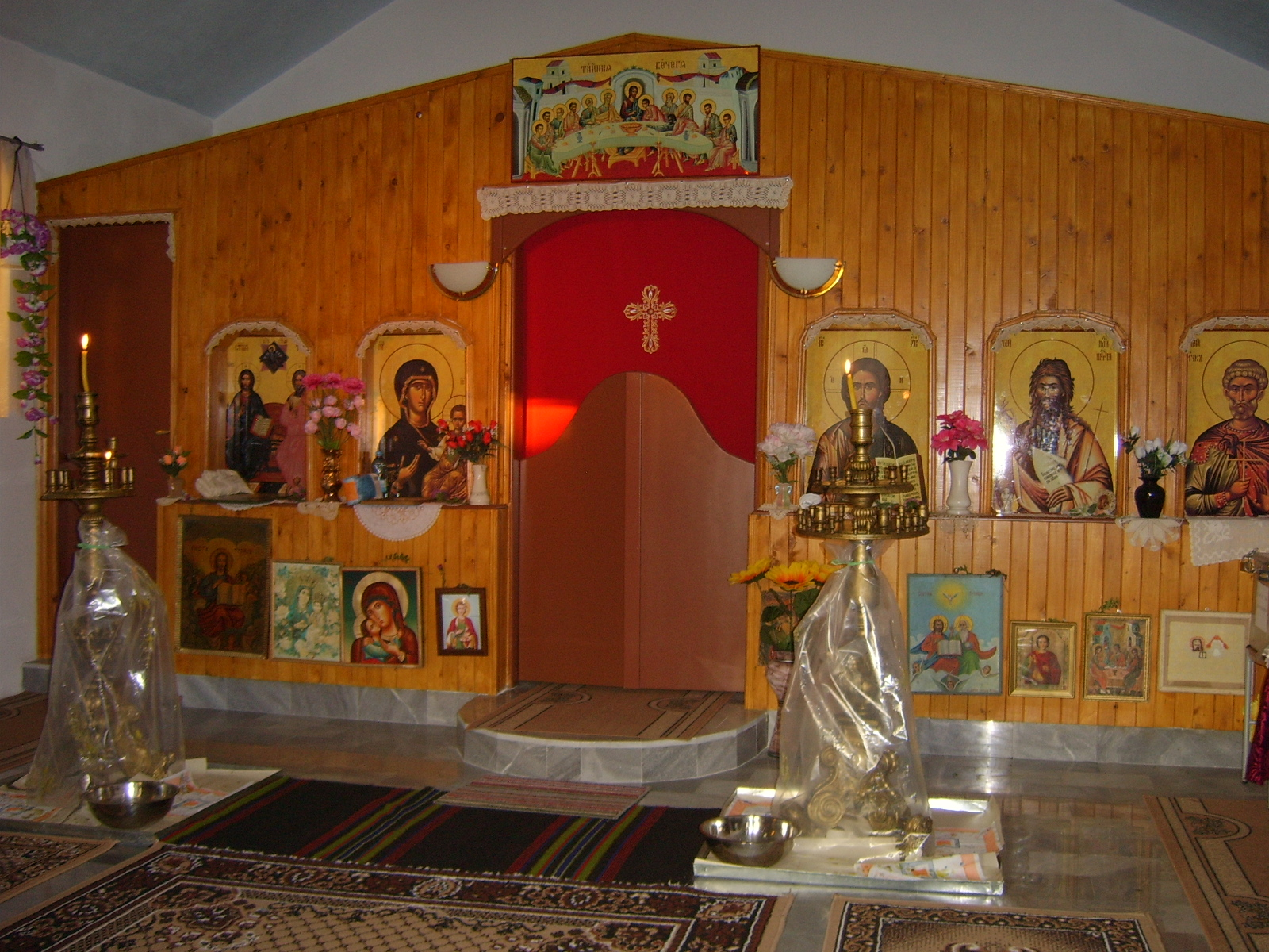 Inside of the Chapel in Levonovo, Bulgaria.